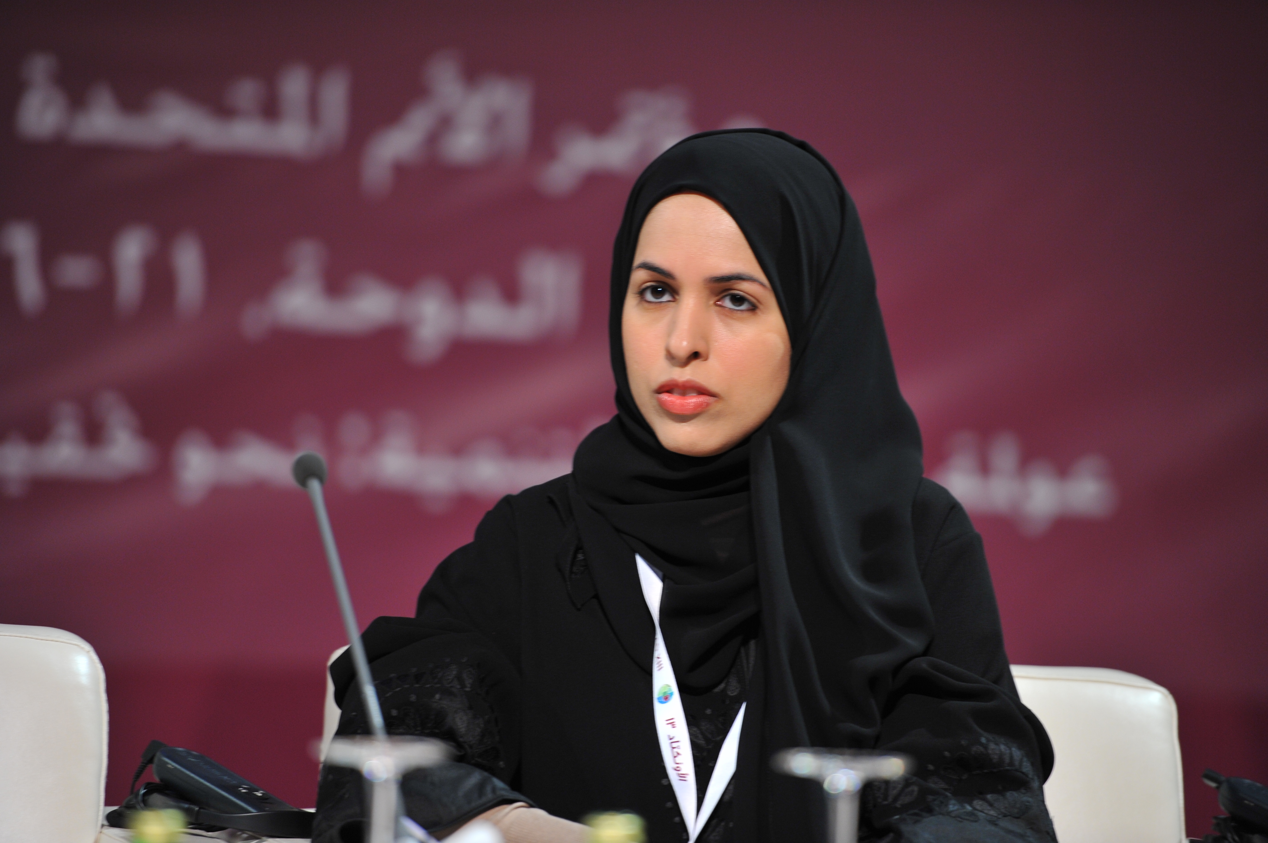 H.E. Mrs. Alya Ahmed Saif Al-Thani, Ambassador of Qatar to the United Nations in Geneva